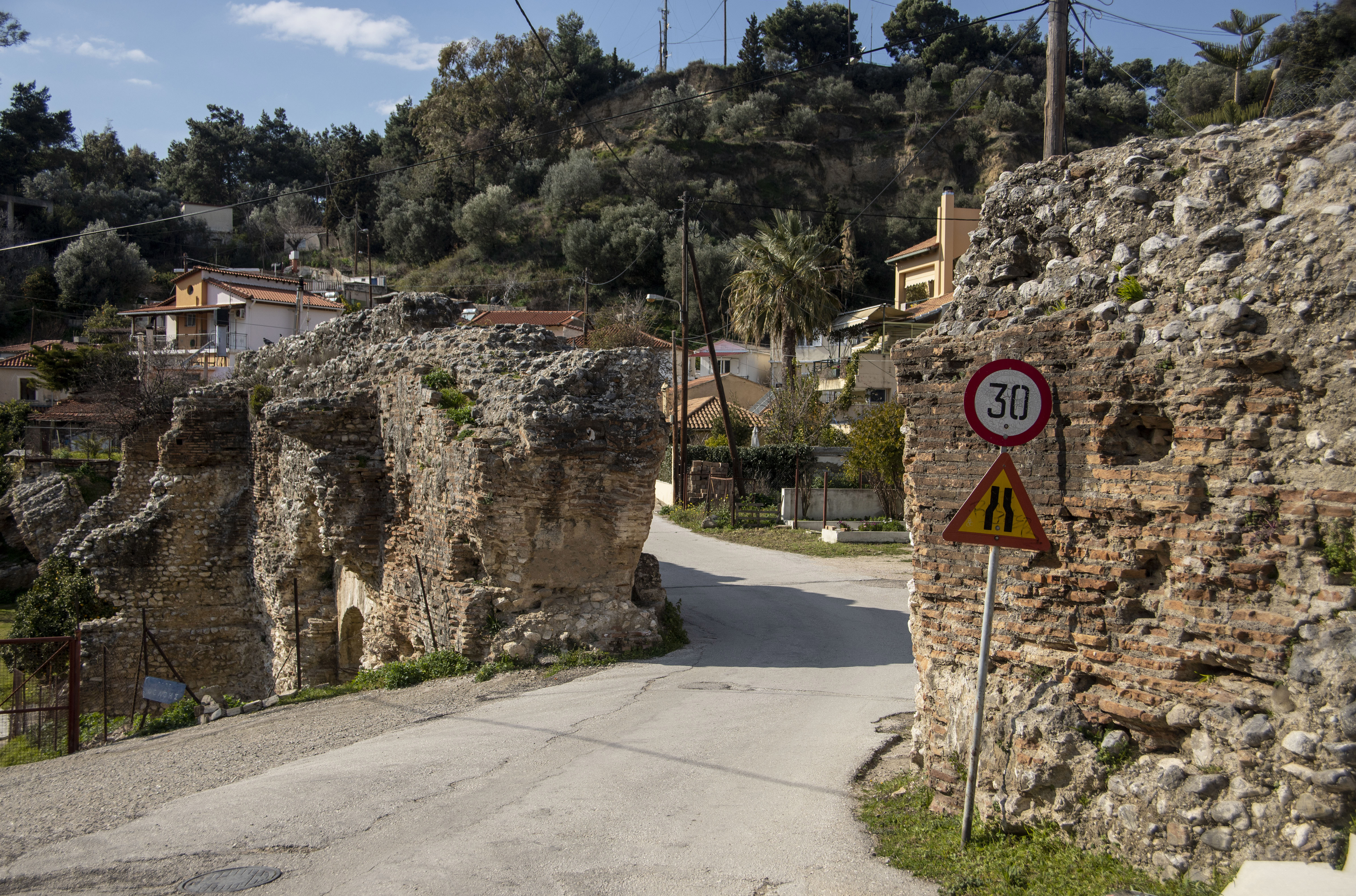 Parts of the Partas' Roman aqueduct that cross by the neighborhood of Asyrmatos in Patras.